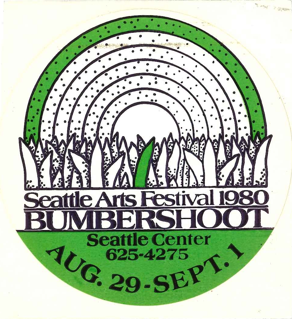 Bumbershoot sticker, Seattle, Washington, U.S., 1980.